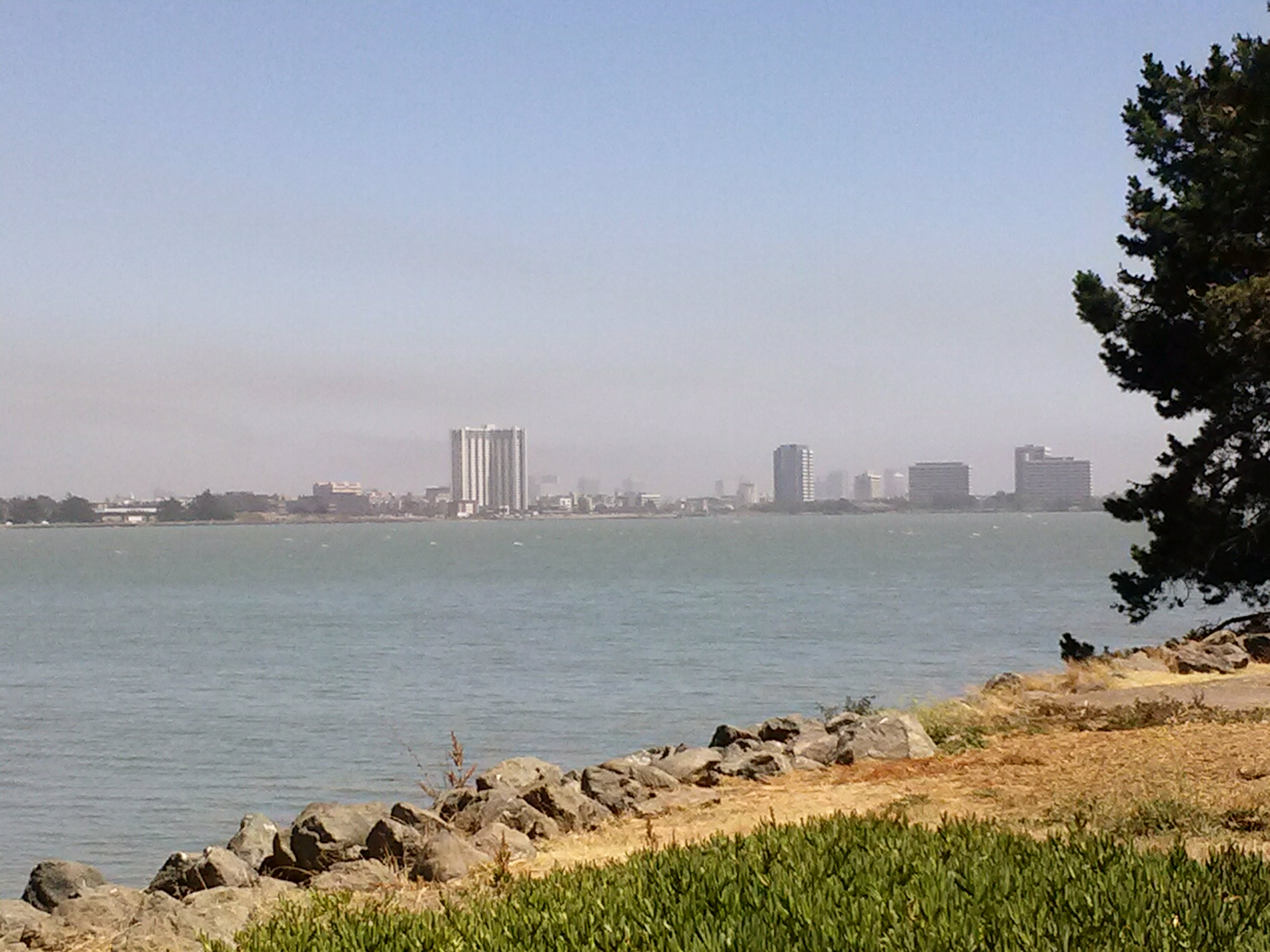 Emeryville skyline from Berkeley Marina